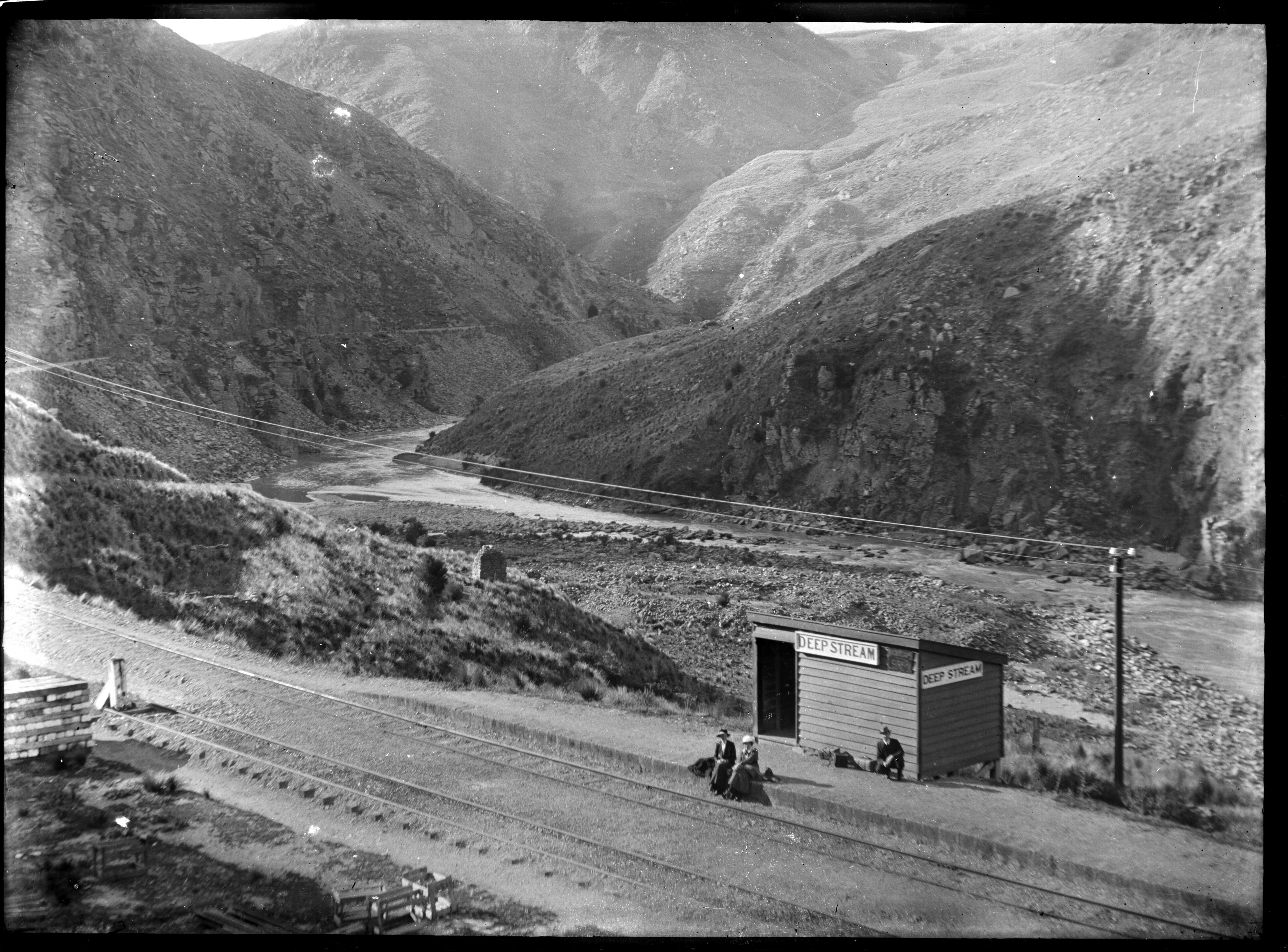 View of the Deep Stream Railway Station, probably near the junction of Deep Stream and the Taieri River. Two women and a man are waiting at the station which is in a valley, beside the river. A ruined house is visible to the left of the station, with only the chimney remaining. Photographed by Albert Percy Godber.